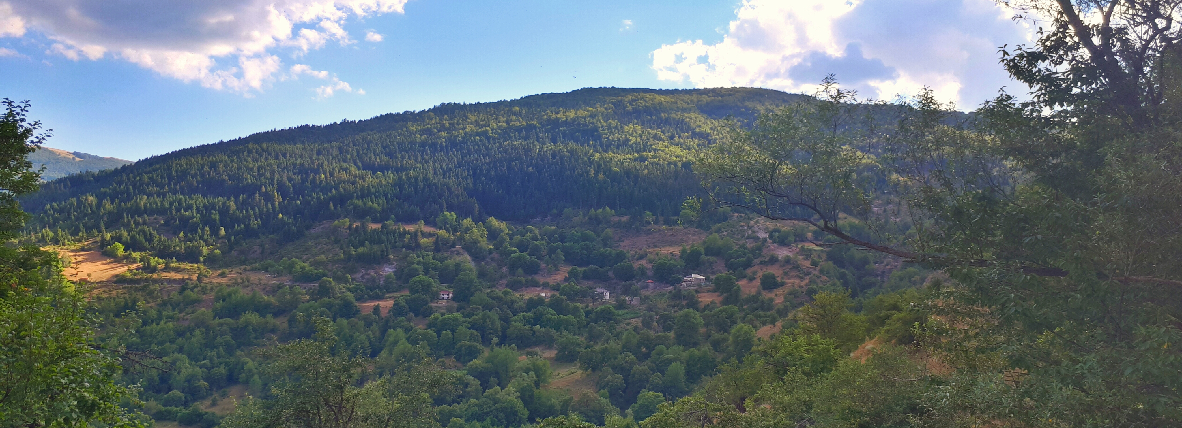 Taken during Wikiexpedition to Reka 2017